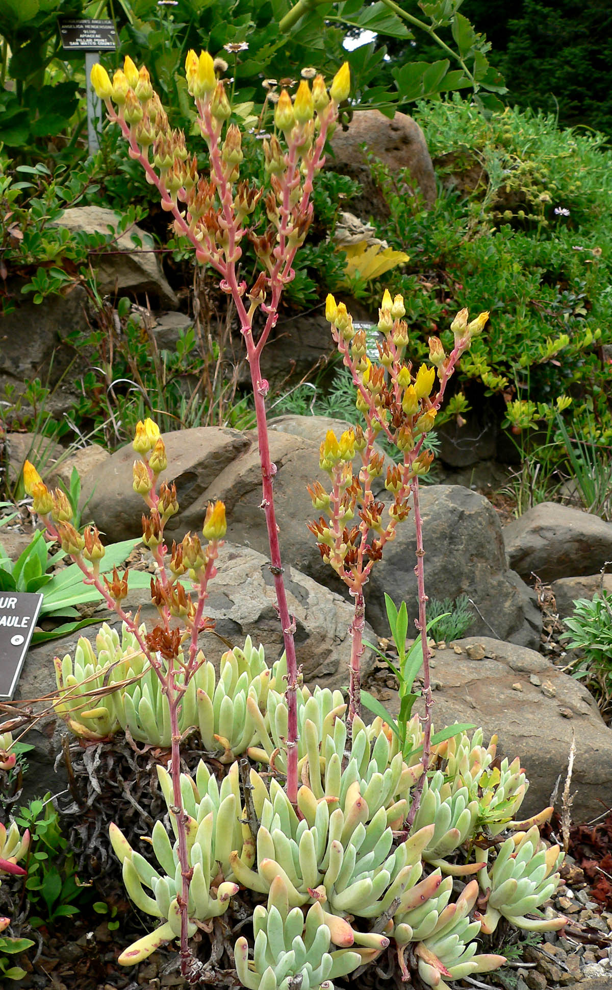 Photo of Dudleya caespitosa at the Regional Parks Botanic Garden